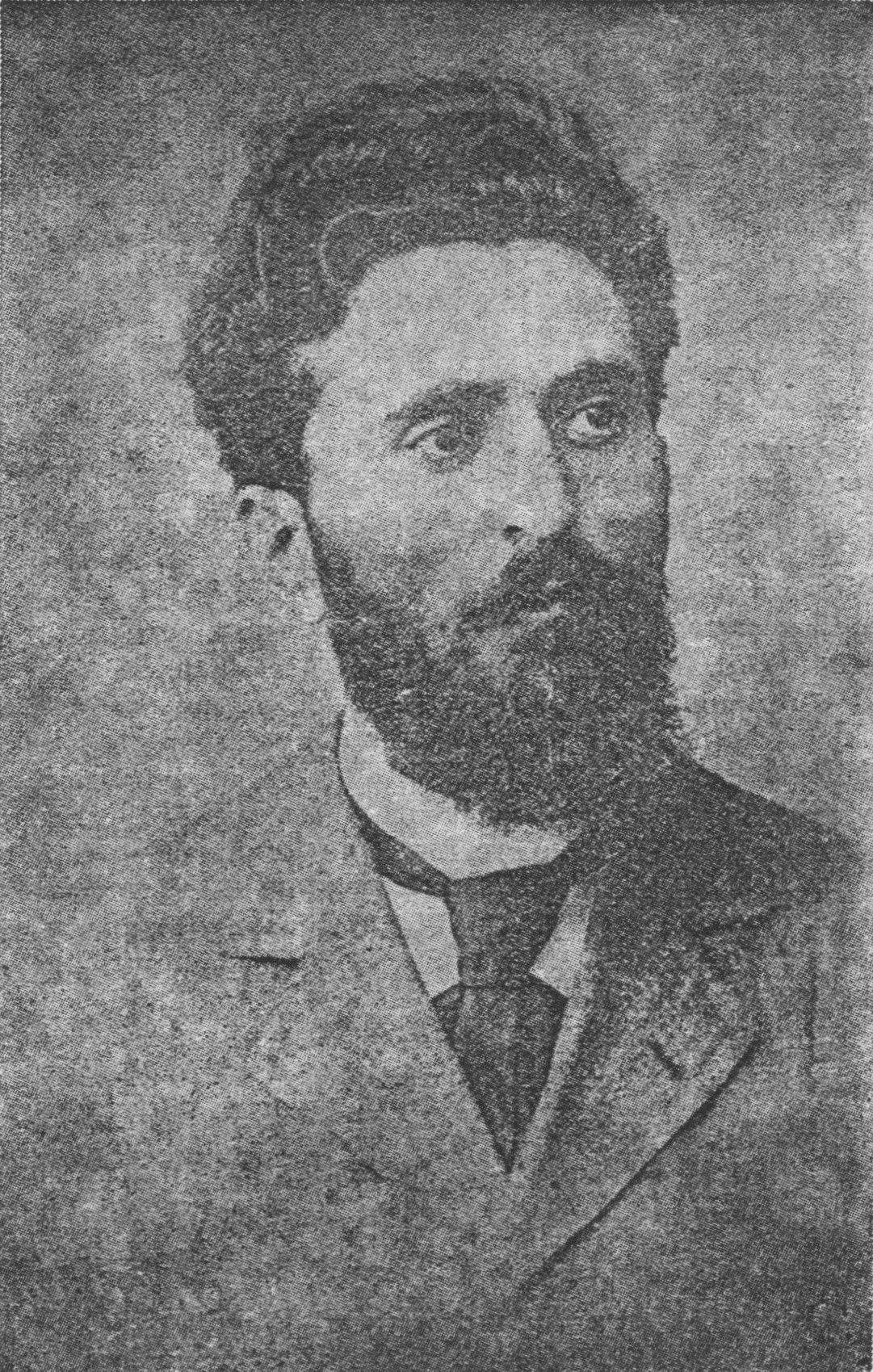 Garabet Ibrăileanu, Romanian literary critic and theorist, writer, translator, sociologist, Iaşi University professor (1908-1934)